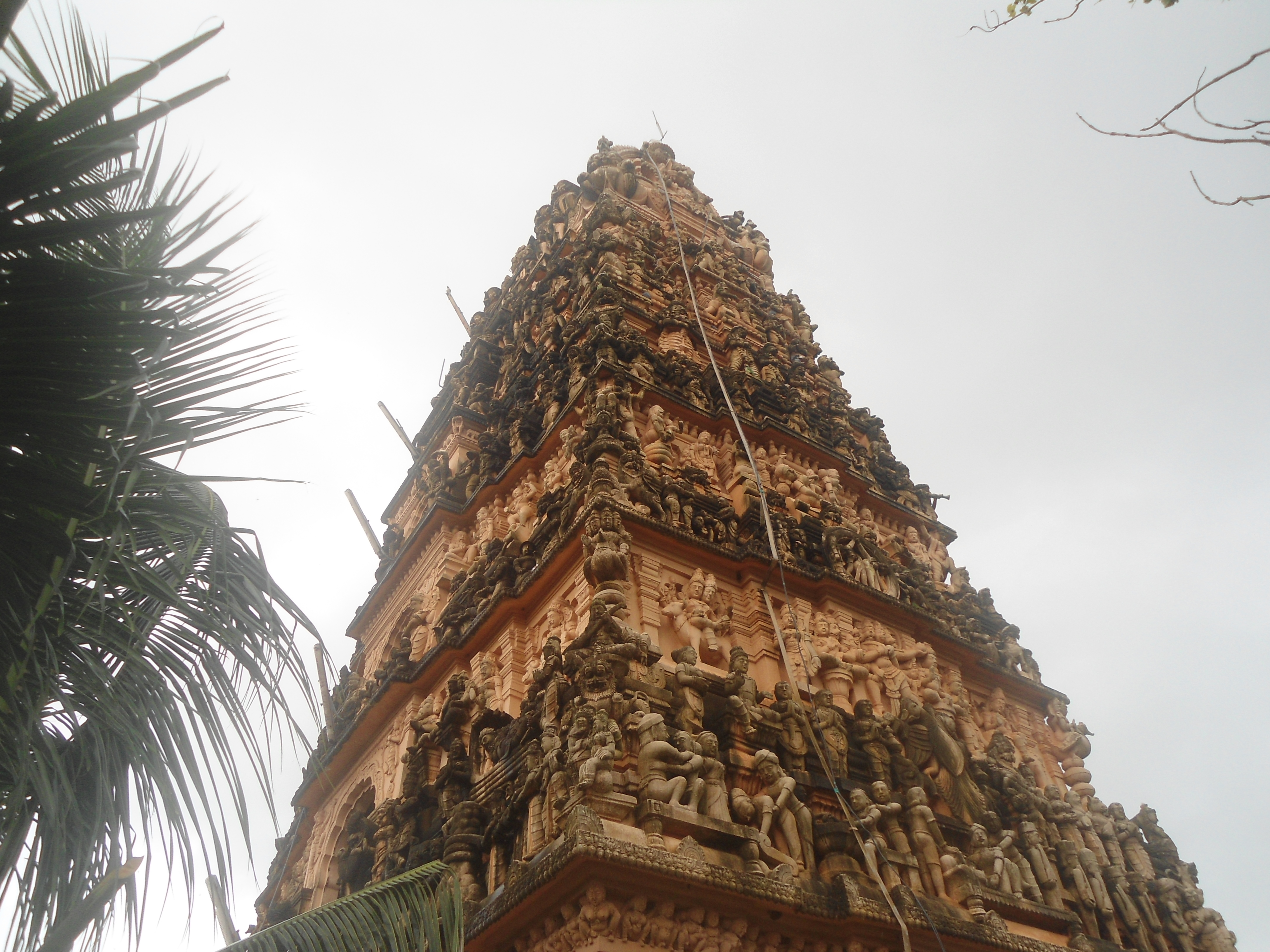 Gopuram of Sarpavaram Bhavanarayana temple near Kakinada